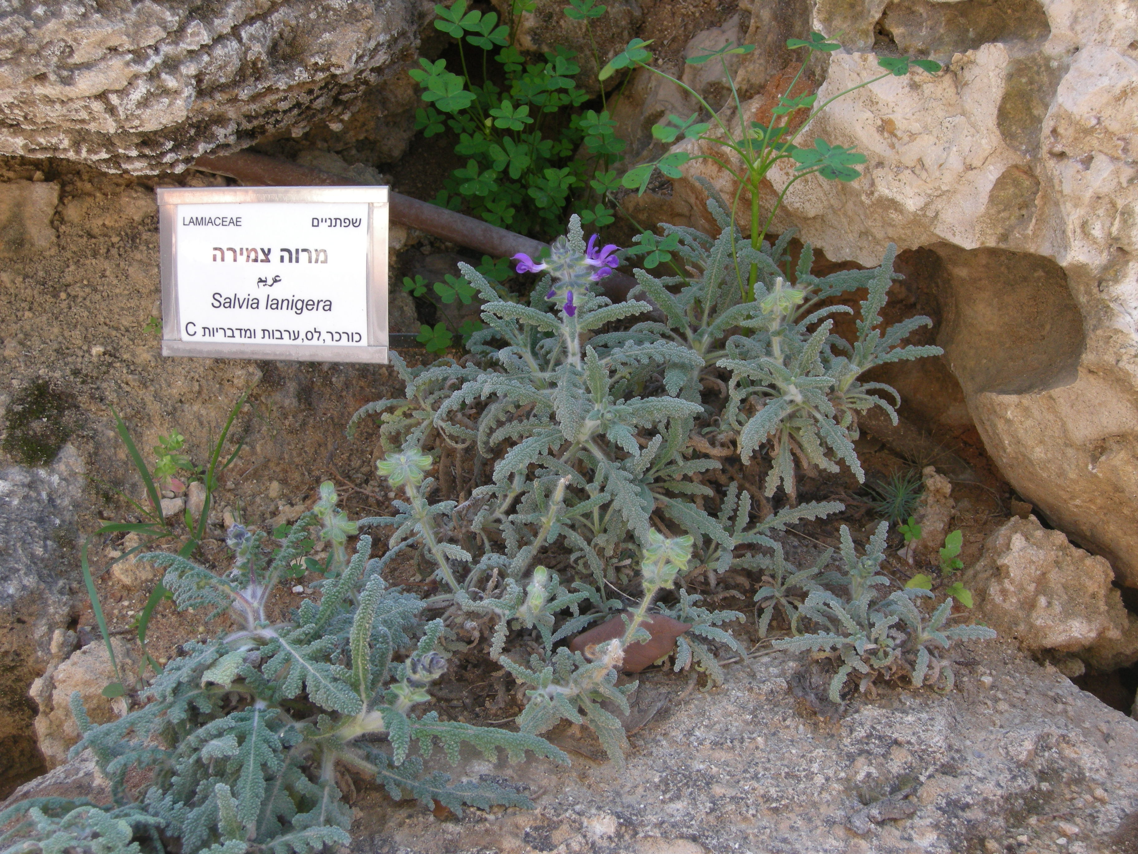 Botanical Garden of Mount Scopus